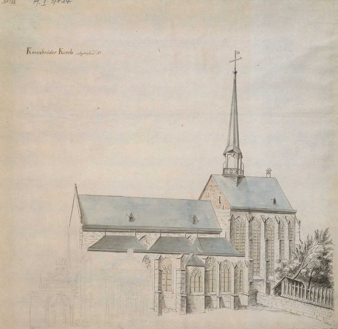 Kreuzbrüderkirche, Köln, Schildergasse, Ansicht von Süden, Tusche, Papier, Köln, rba_c019853.